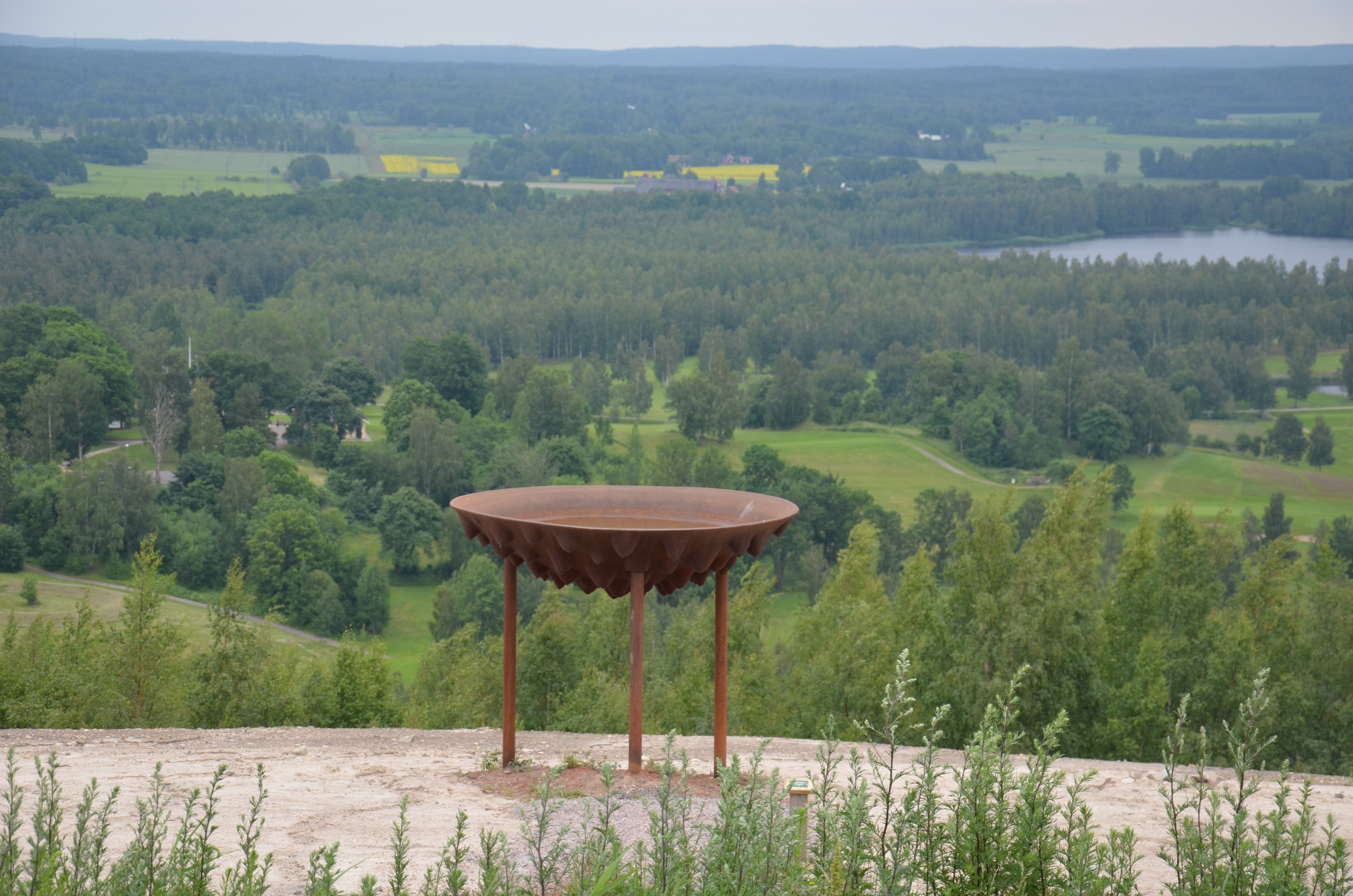 Bröstskål by Ulf Rollof, 2000, Konst på Hög, Kumla, Sweden